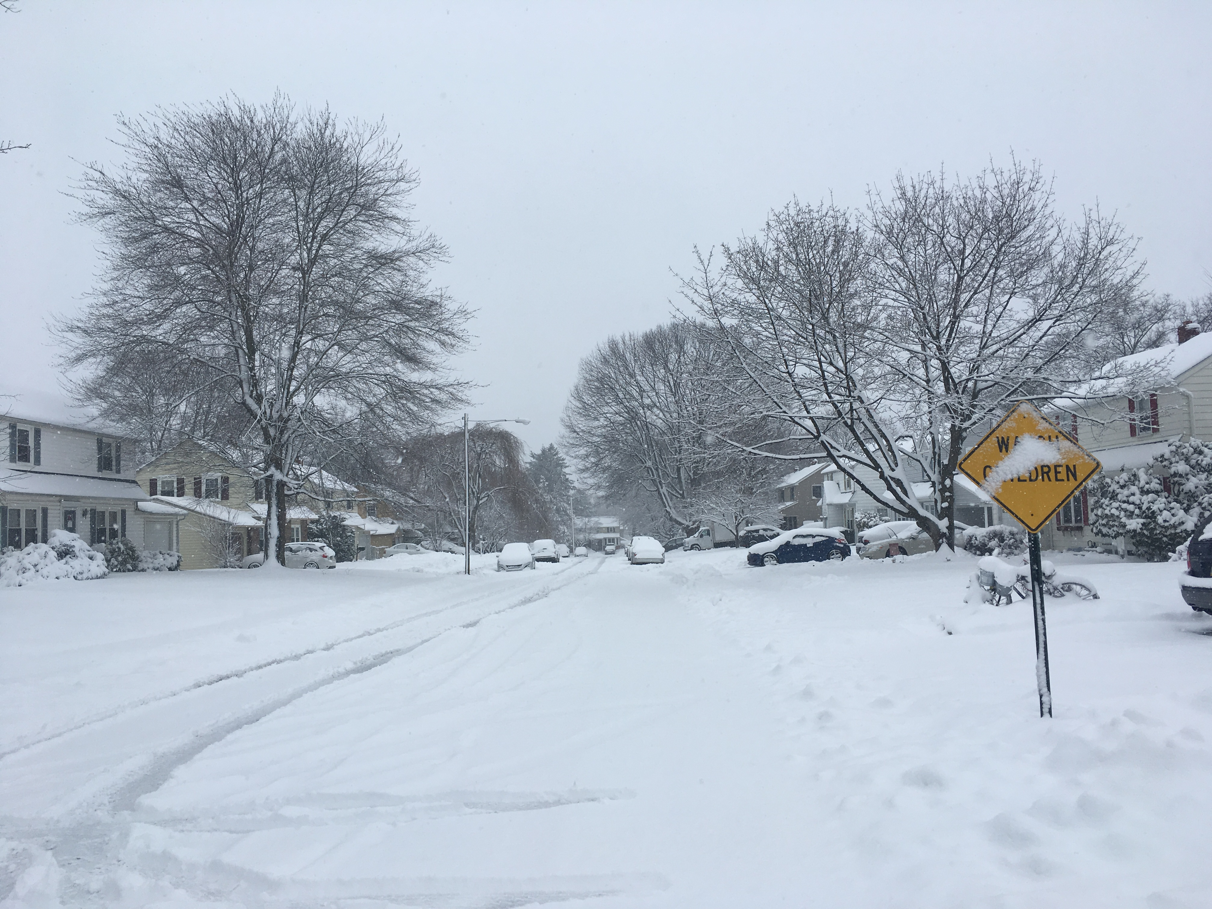 Snow from a nor'easter on March 21, 2018 in Hatboro, Pennsylvania